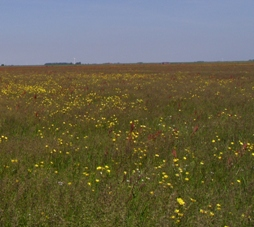 Dutch meadow